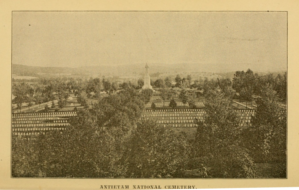 Aerial photograph of "Antietam National Cemetery," circa 1890.